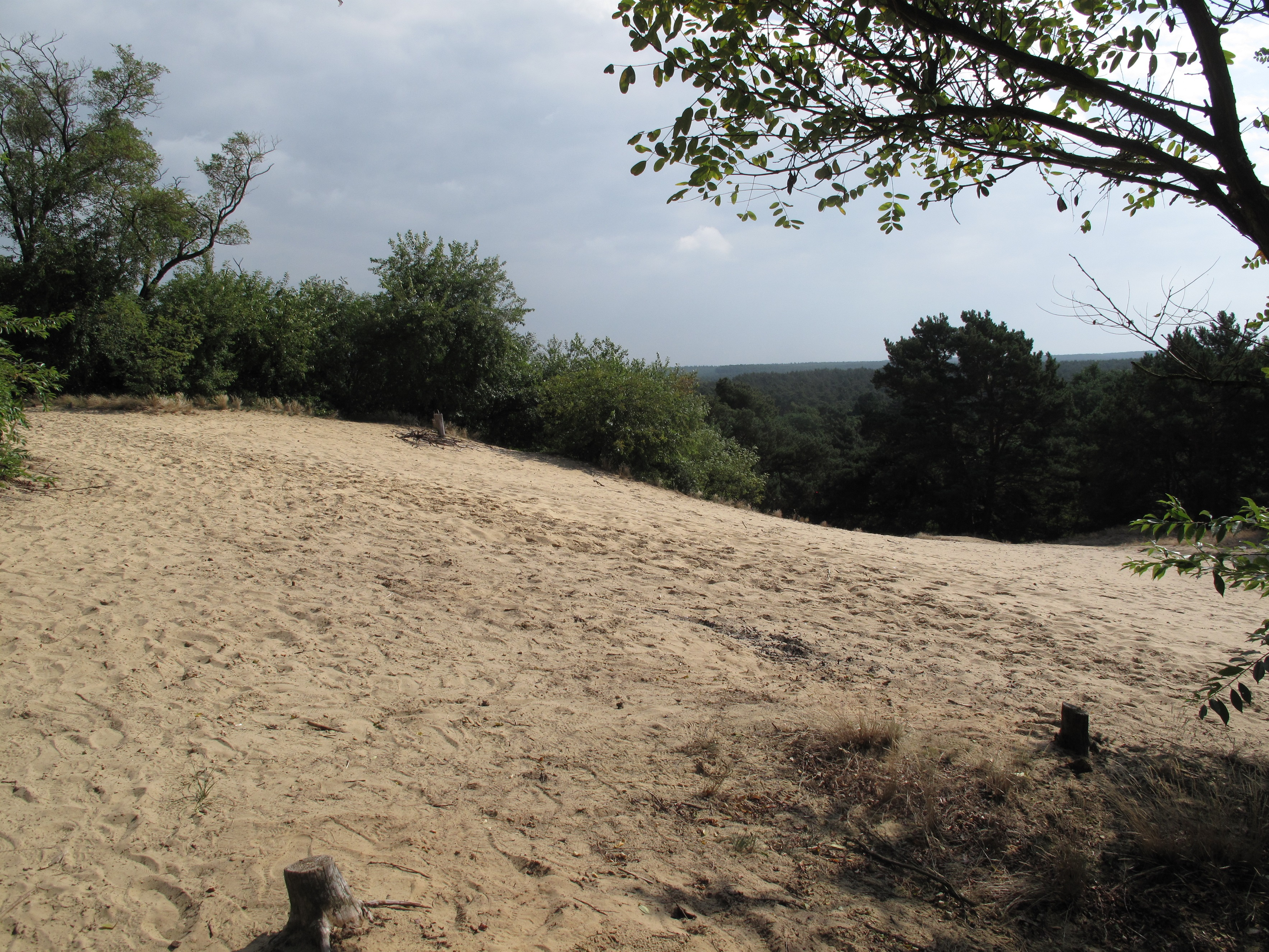 The „Binnendüne Waltersberge“ is one of the largest inland dunes in Brandenburg, Germany. The dune is situated in the town Storkow, District Oder-Spree, just over the eastern border of the Dahme-Heideseen Nature Park. The centre of the area, which covers about 14 hectare, is designated as a Naturschutzgebiet (protected area) and Natura 2000-area. Nearly just beside the northern bank of the Großer Storkower See (lake), rises above the dune with its largest peak, the Storkower Weinberg (69 metres), up to 32 metres over the sea.